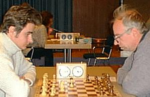 Roman Slobodjan - Robert Hübner, 71st German Chess Championship 1999 at Altenkirchen (Westerwald).